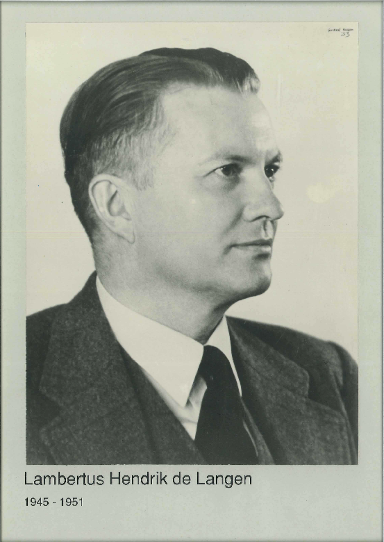 portrait of professor L.H de Langen Technische Hogeschool Delft (currently known as Technical University Delft), faculty of Mechanical Engineering